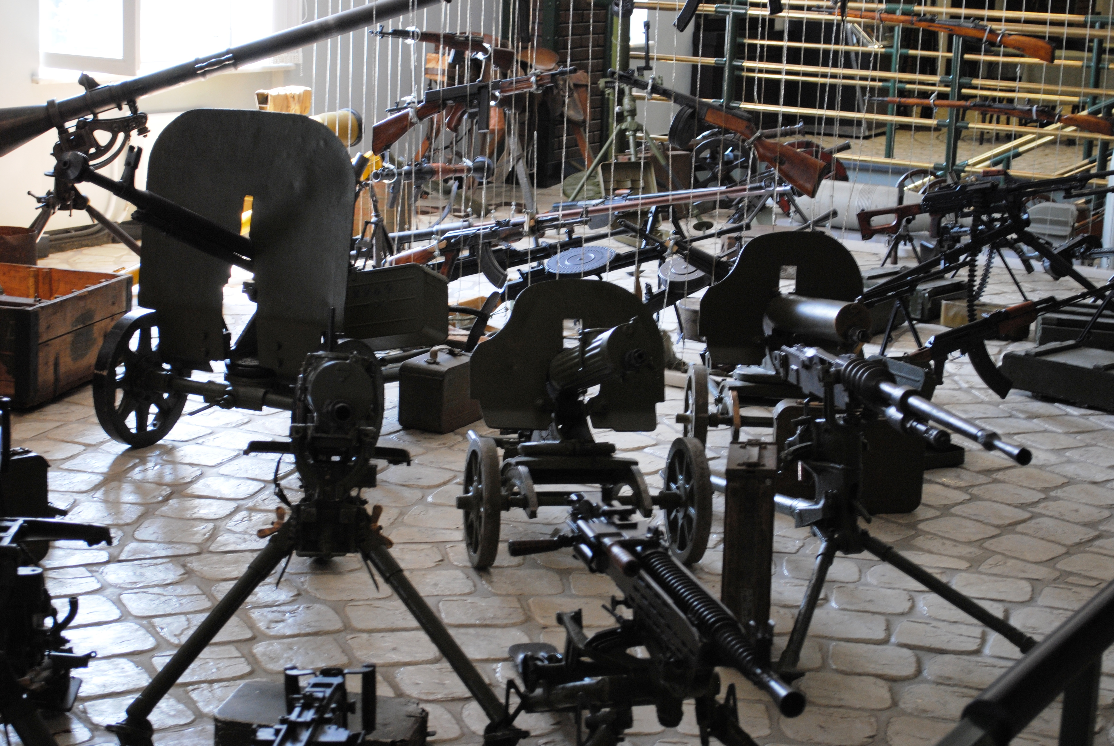 Museum of technique of Vadim Zadorogny